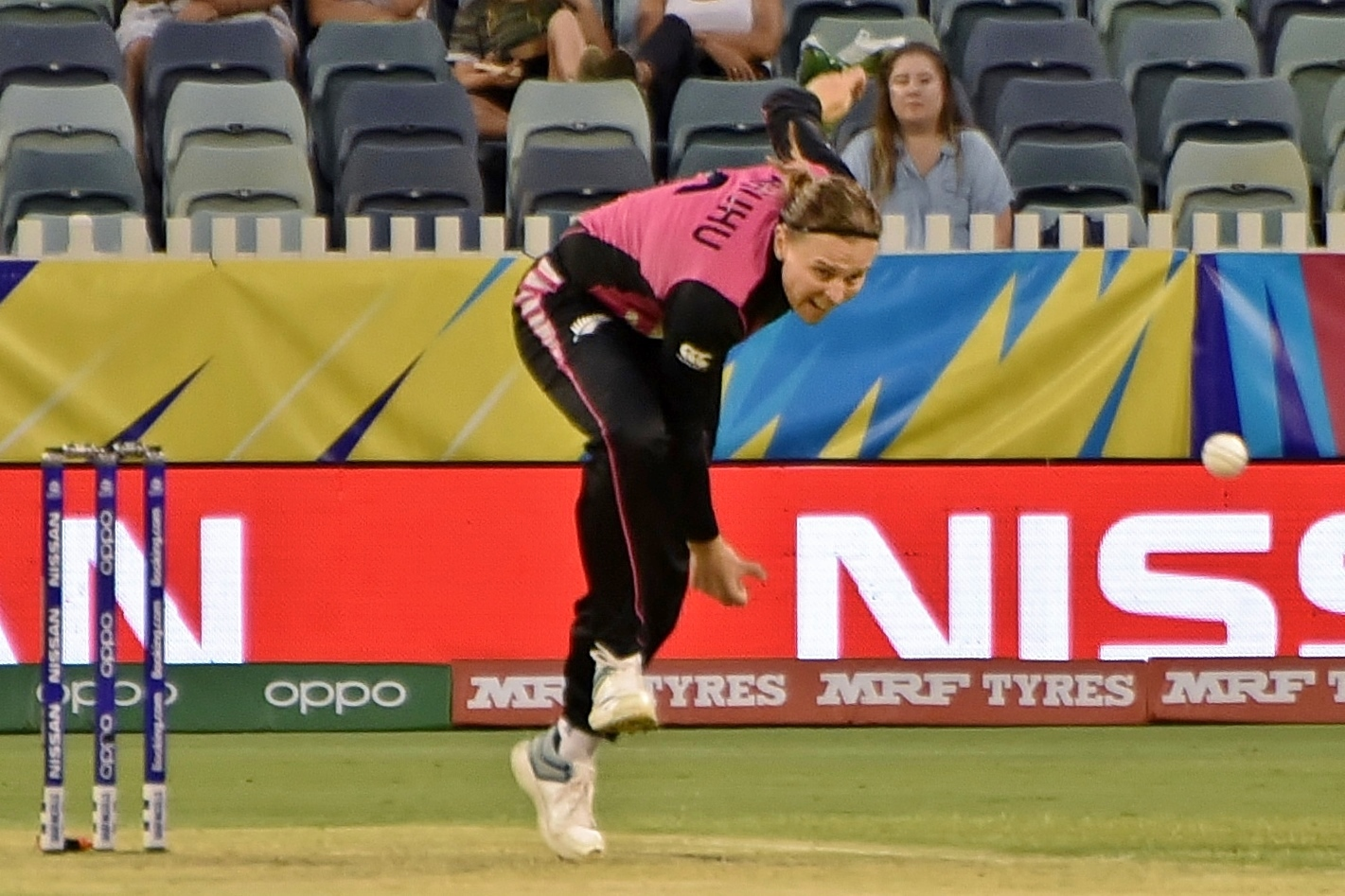 Lea Tahuhu bowling for New Zealand against Sri Lanka during their 2020 ICC Women's T20 World Cup match at the WACA Ground in Perth, Australia